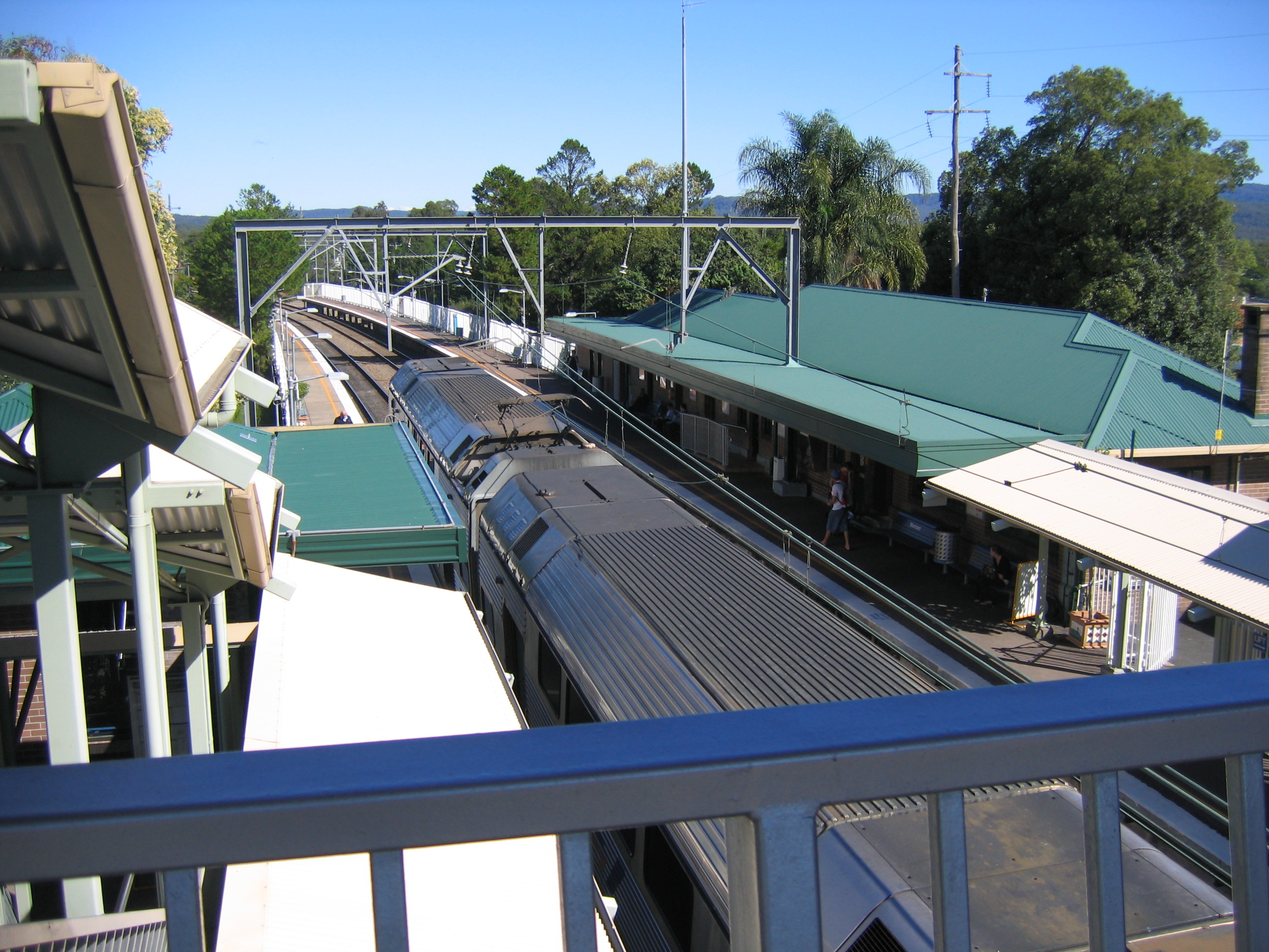 Morisset Railway station viewed from overbridge